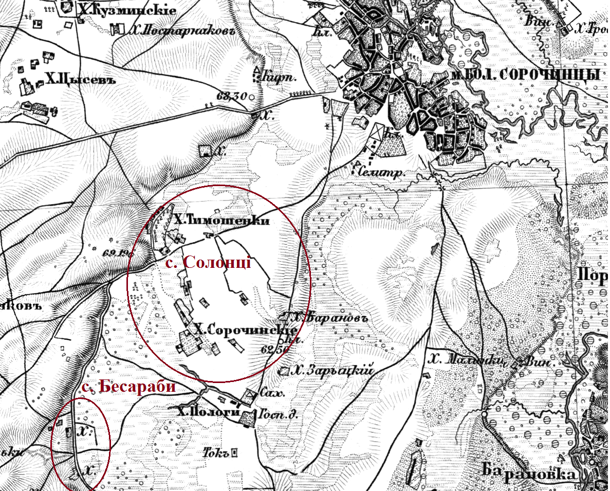 Територія села Солонці на військово-топографічній карті. Середини ХІХ ст. Ряд: XXIII, лист: 12